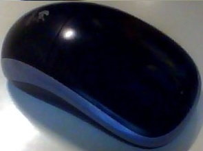 Logitech wireless mouse